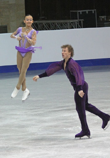 Lubov ILIUSHECHKINA and Nodari MAISURADZE performs throw jumps during his free program at the 2009 World Junior Figure Skating Championships